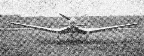 Loire Nieuport LN-40 photo from L'Aerophile August 1943